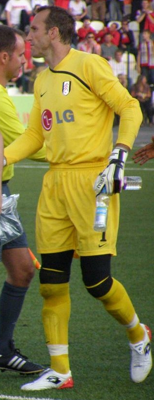 Mark Schwarzer as a player of Fulham F.C.